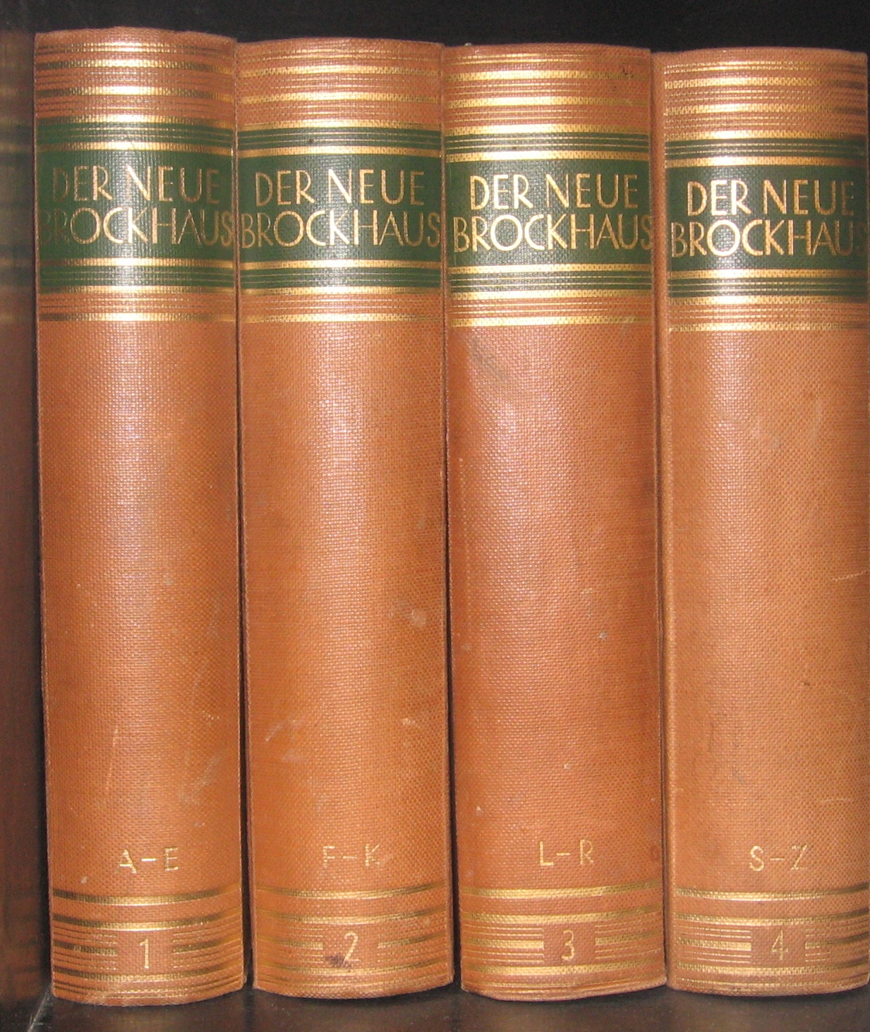 Der Neue Brockaus - German encyclopedia 1936-38